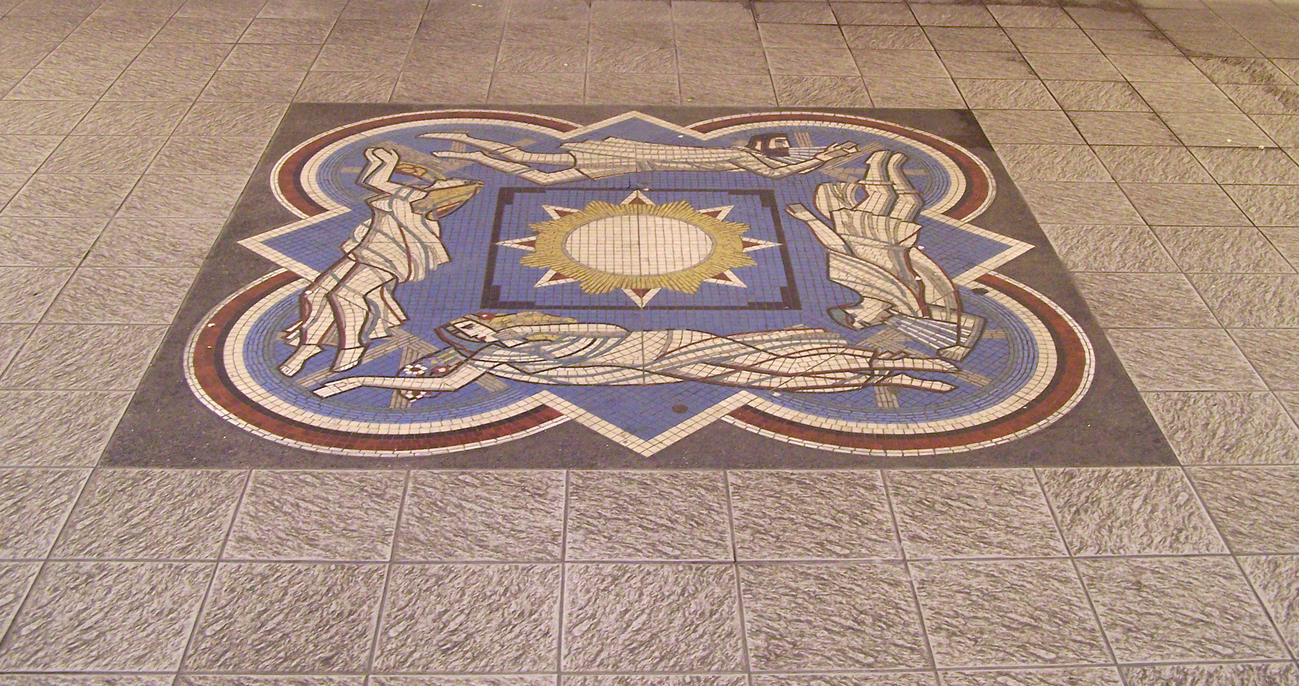 Mosaic "The four cardinal directions" made by Jan Boon in 1948 for the old building of Central Station in Utrecht. Placed at the northern tunnel.